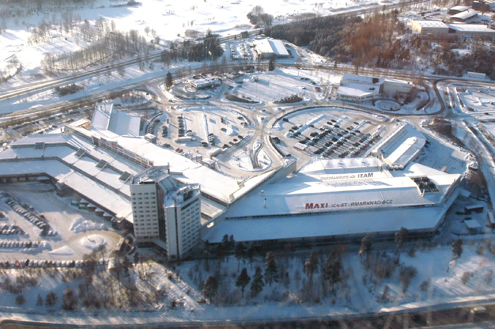 The shopping mall near the Arlanda Airport north of Stockholm. Photograph by Henryk Kotowski in February 2007.